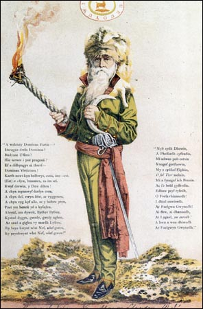 A nineteenth century lithograph entitled William Price the Druid, depicting William Price, a significant figure in the Neo-druidry religious movement. Now found at the National Museum Wales.